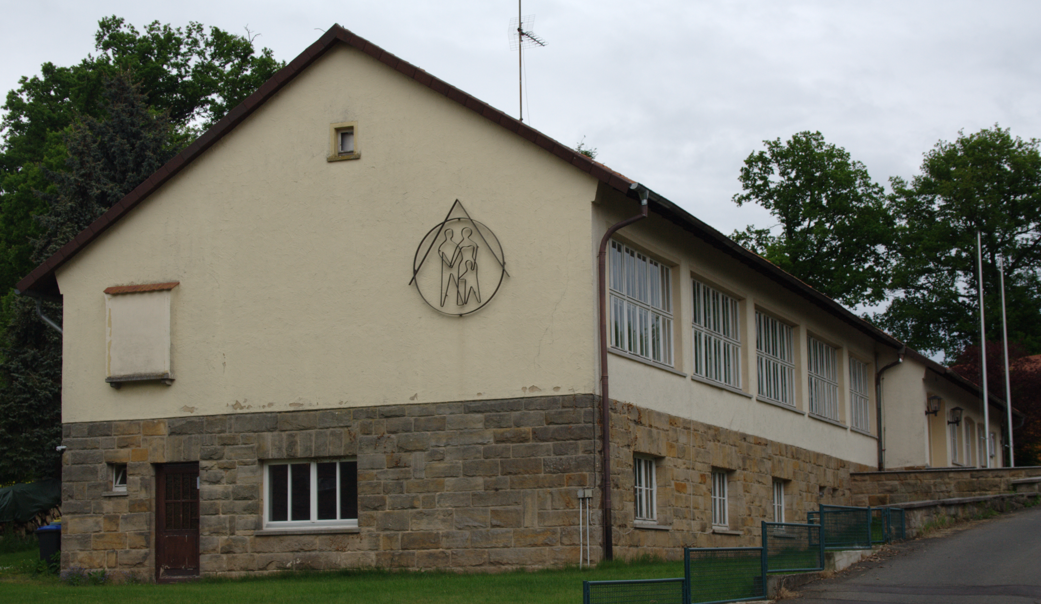 Building (community centre) in Alsfeld Eudorf An der Welzbach / Hesse / Germany